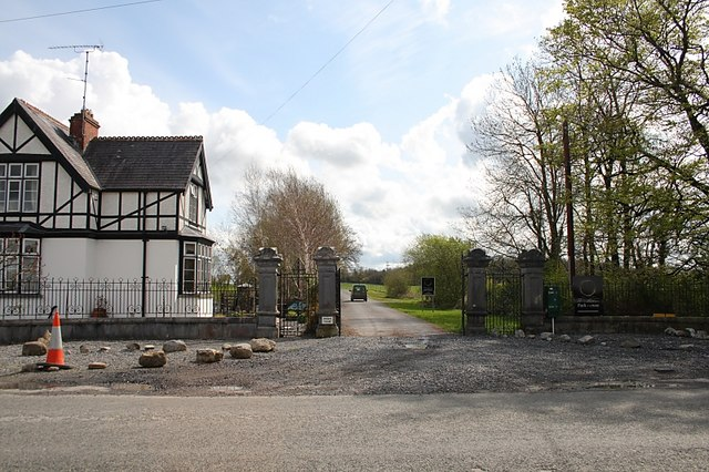 Entrance Gate Entrance and gate lodge to Castletown House, now Middleton Park House.